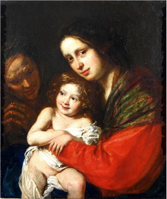 Holy Family with Saint Anne.